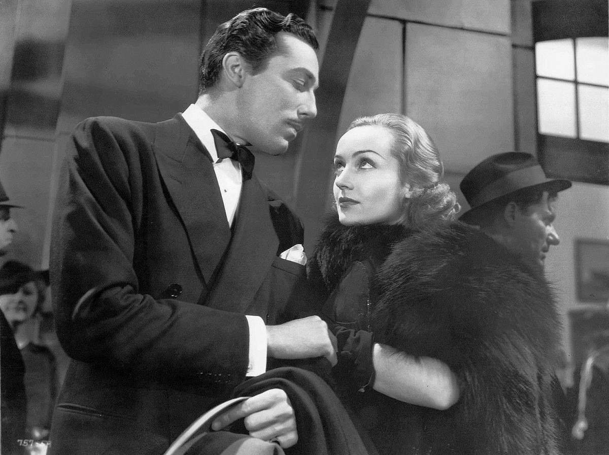 Cesar Romero & Carole Lombard in 1936 romantic comedy film Love Before Breakfast. See also film still. No copyright notice.